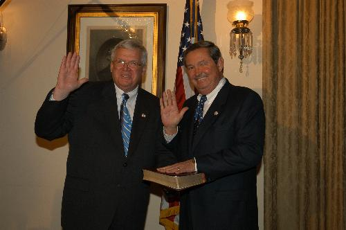 This work created by the United States House of Rep.